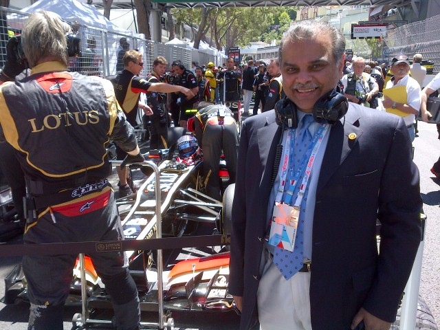 Mansoor IJAZ Lotus F1 Grid Monaco GP 2013